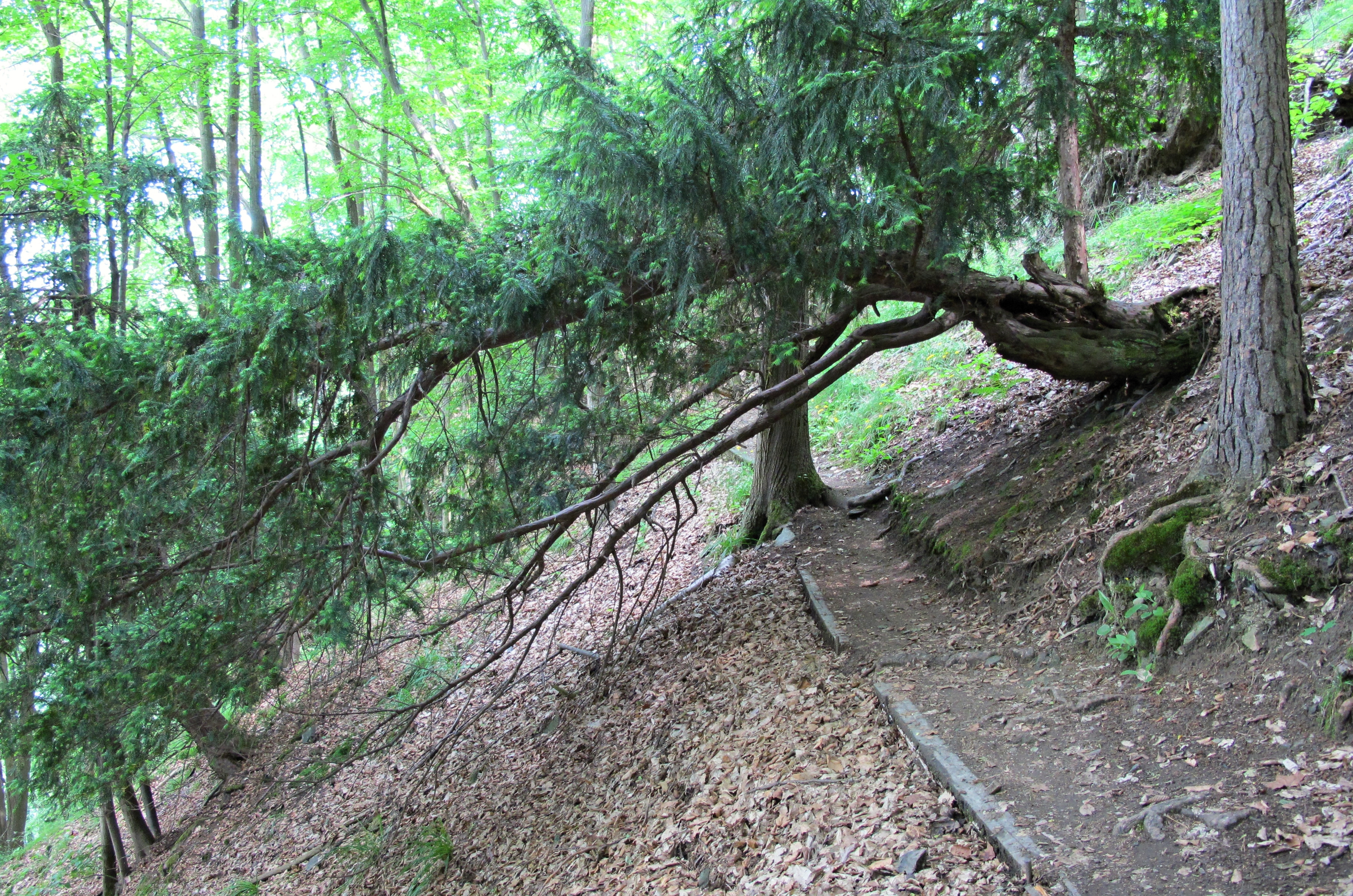 Taxus baccata in national nature reserve Drbákov-Albertovy skály near Nalžovické Podhájí in Příbram District